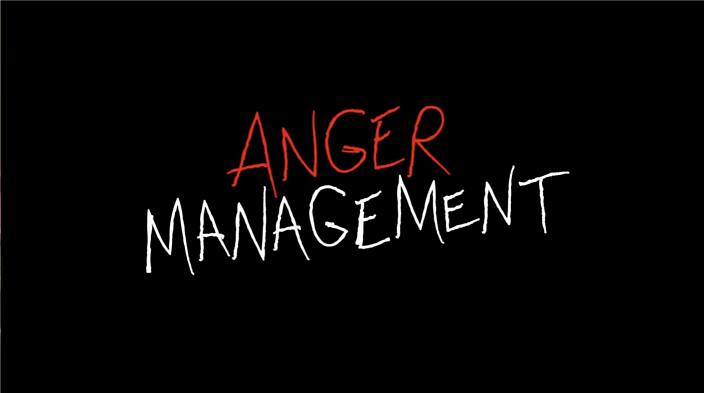 Opening screenshot of television series.